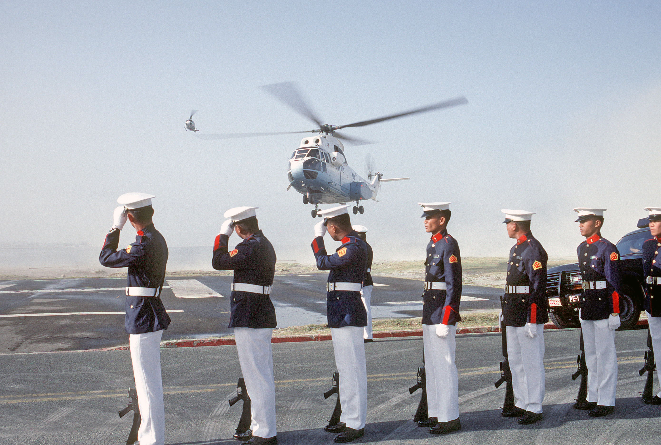 ID: DNST9205579 Service Depicted: Multi-National Philippine Marines, part of a joint U.S.-Philippine Marine honor guard, stand in formation as an SA-330 Puma helicopter transporting Philippine President Corazon Aquino arrives on base. Location: NAVAL STATION, SUBIC BAY, LUZON PHILIPPINES (PHL) Camera Operator: JO2 ROGER DUTCHER Date Shot: 14 Jan 1992